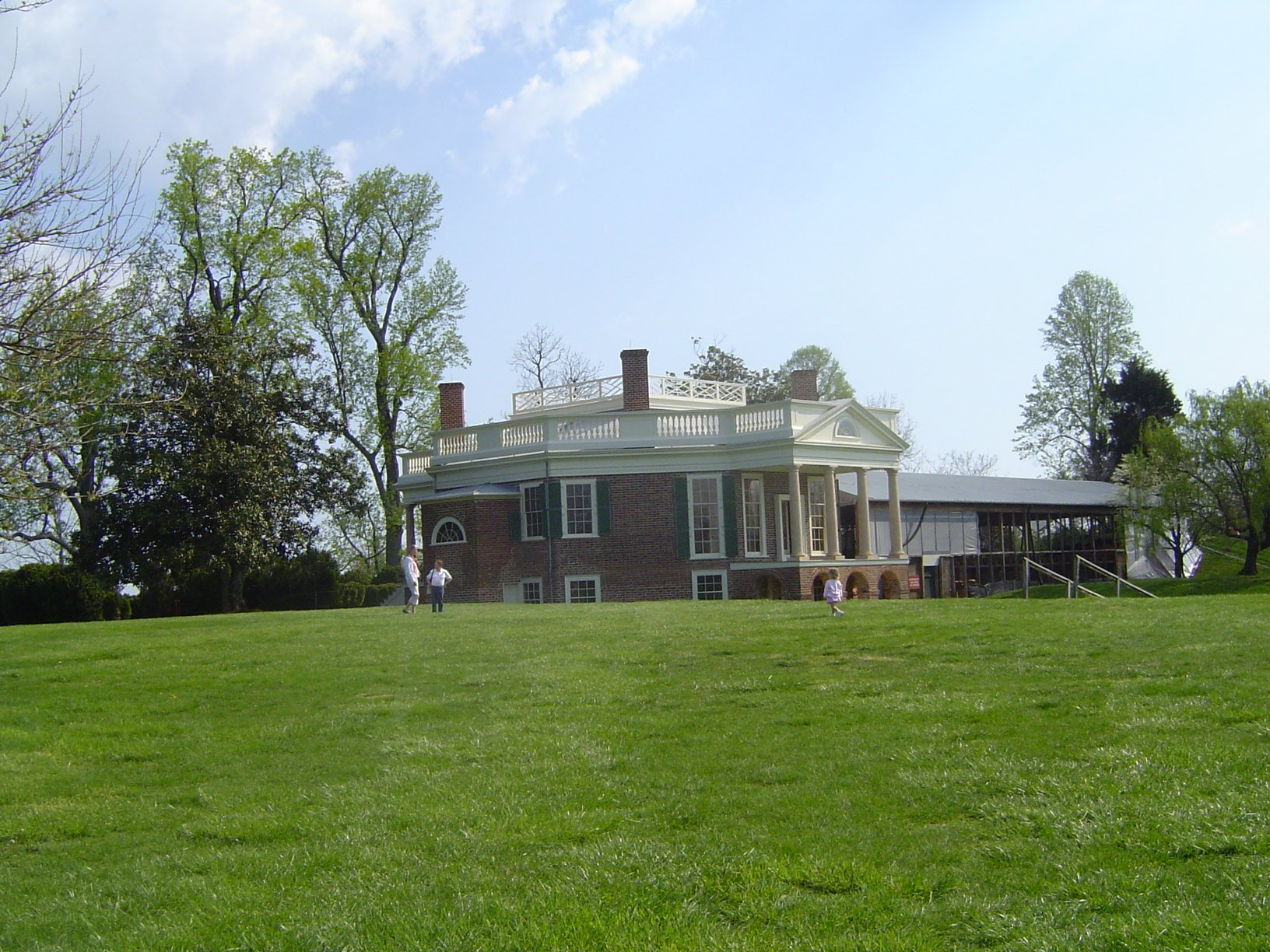 Thomas Jefferson's Poplar Forest